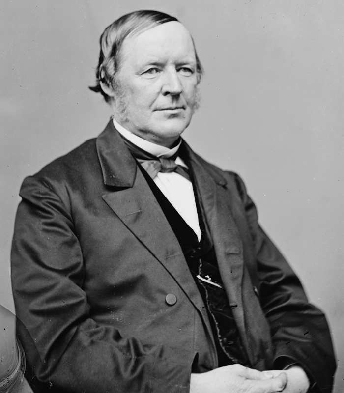 TITLE: Hugh McCulloch CREATED/PUBLISHED: [between 1855 and 1865] Source: Library of Congress.